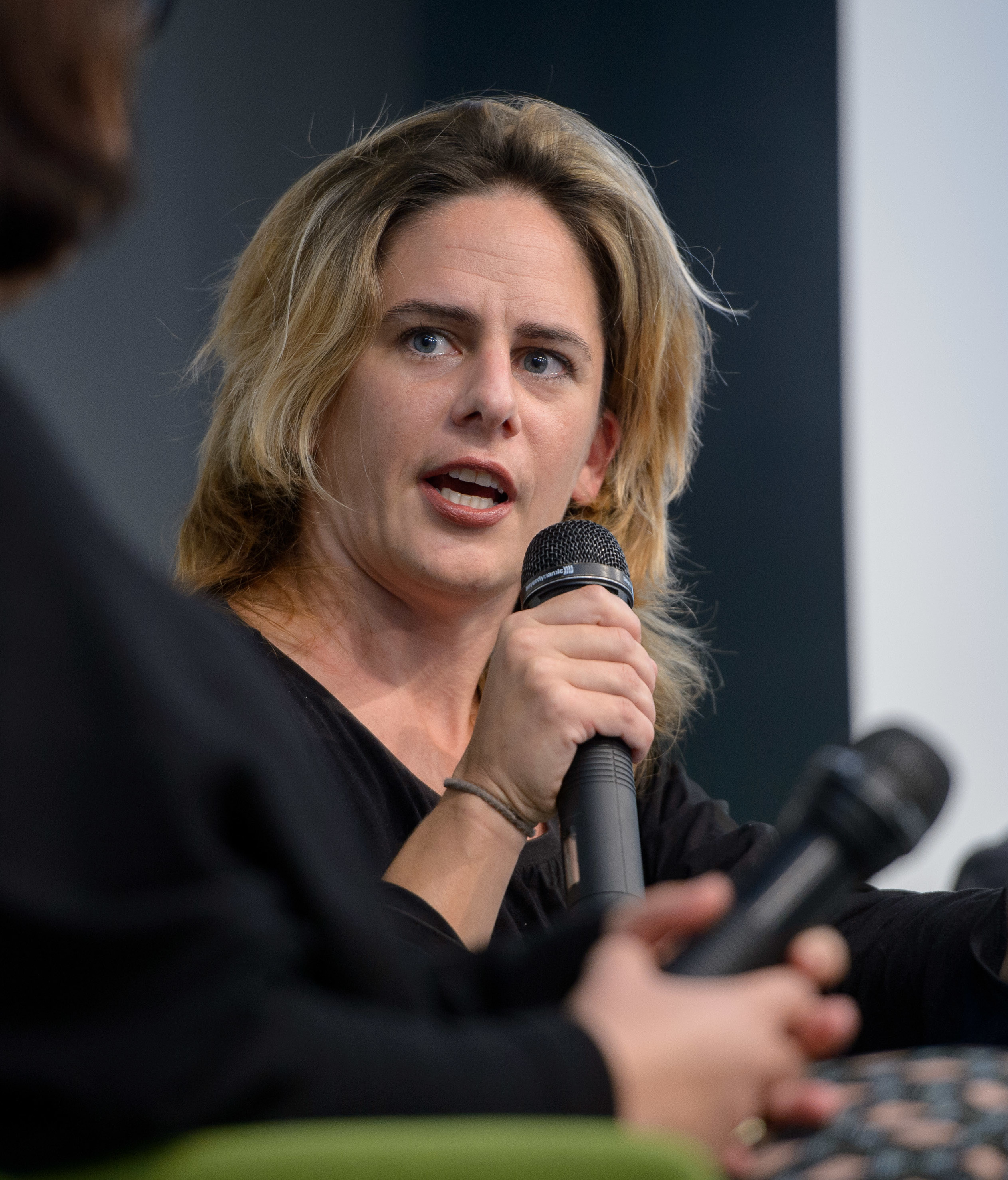 Margarita Tsomou (Missy Magazine) Foto: Stephan Röhl